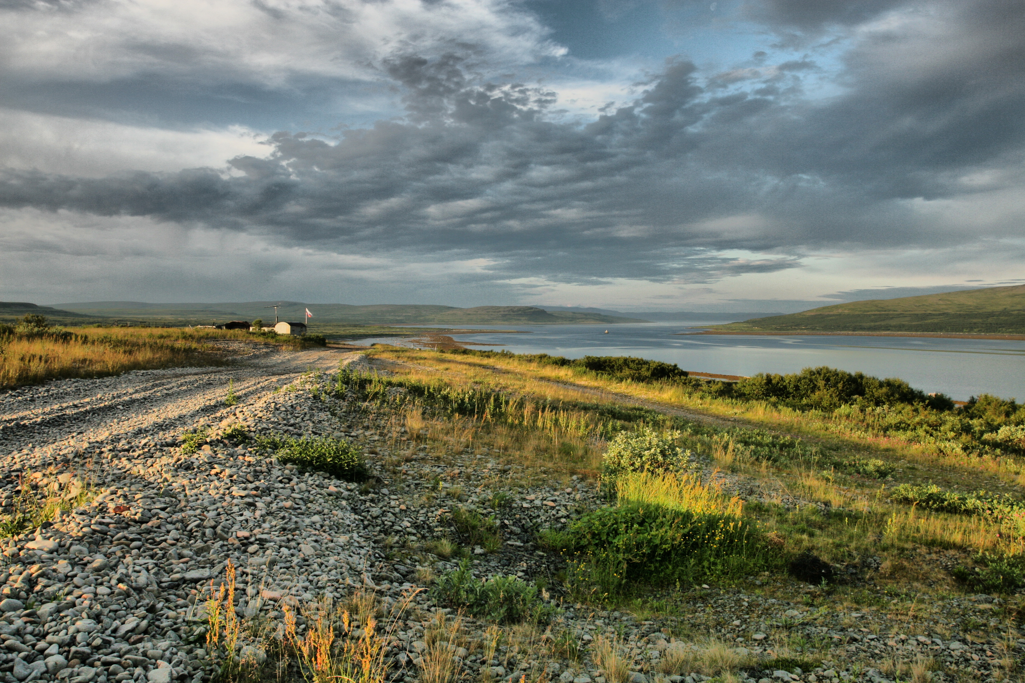 Ozyorko Bay at the Rybachiy Peninsula